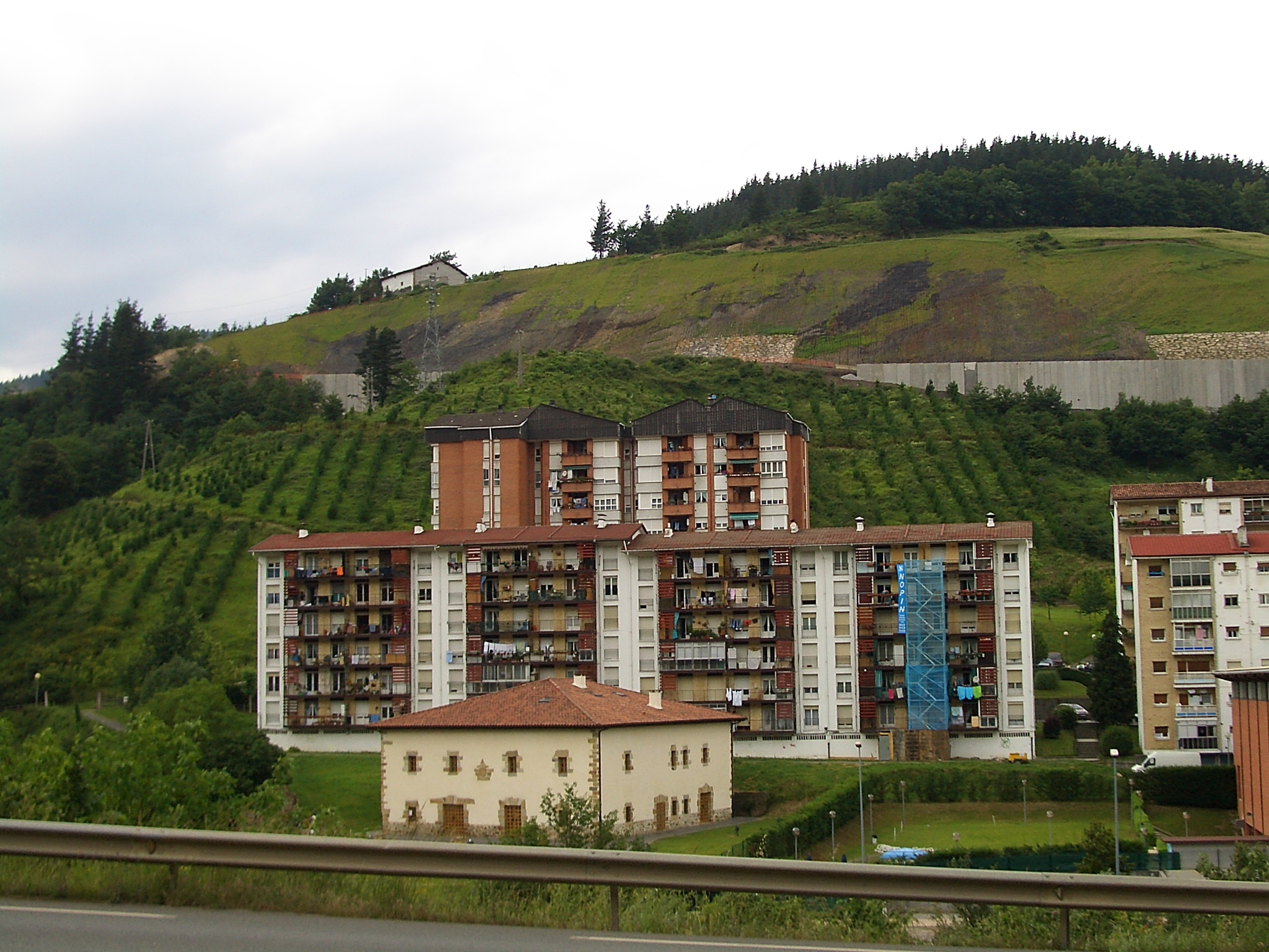 Residential neighborhood in Eskoriatza, a small town just south of Aretxabaleta in the Basque Country